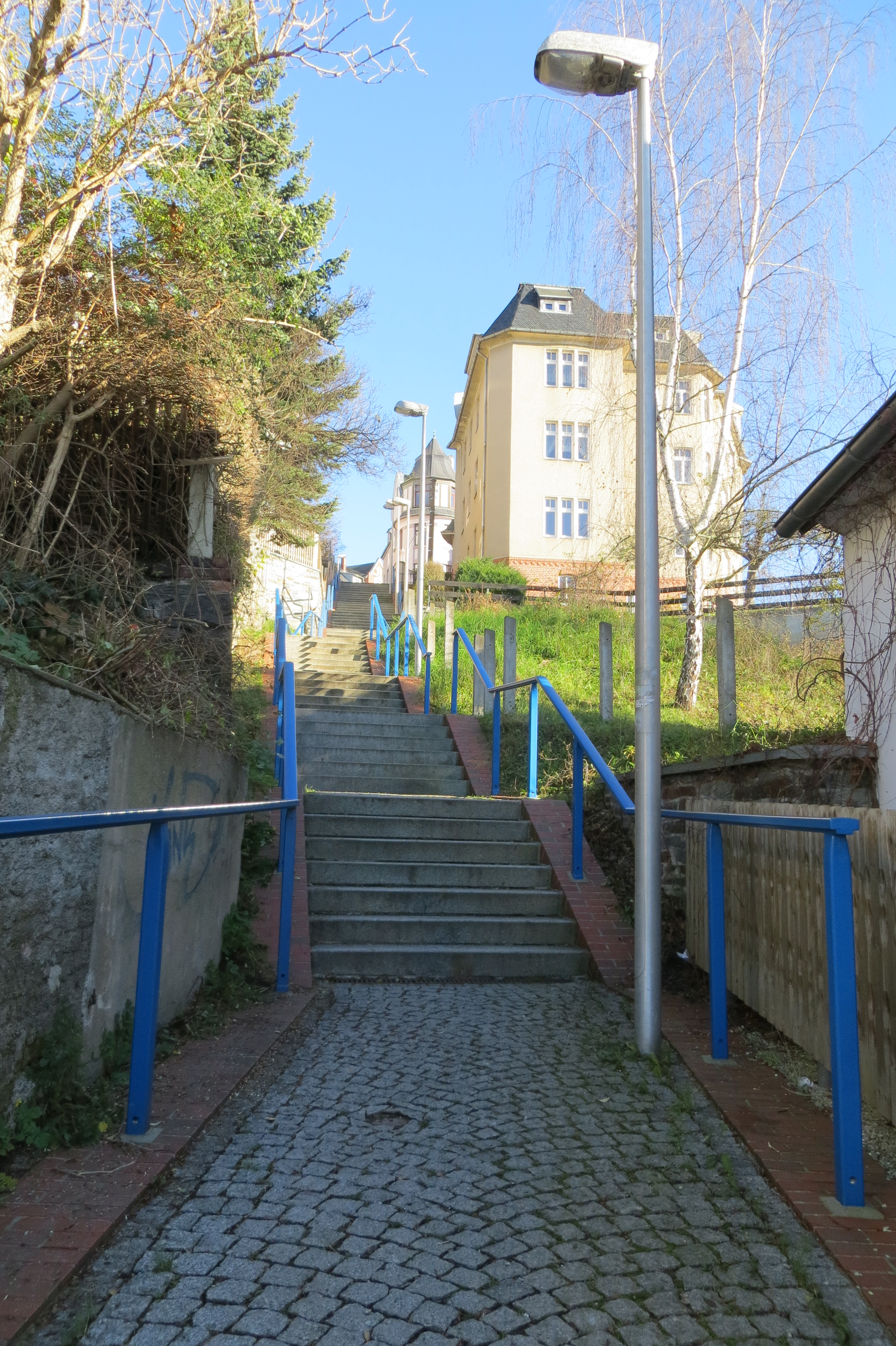 Himmelsleiter stairs in Greiz